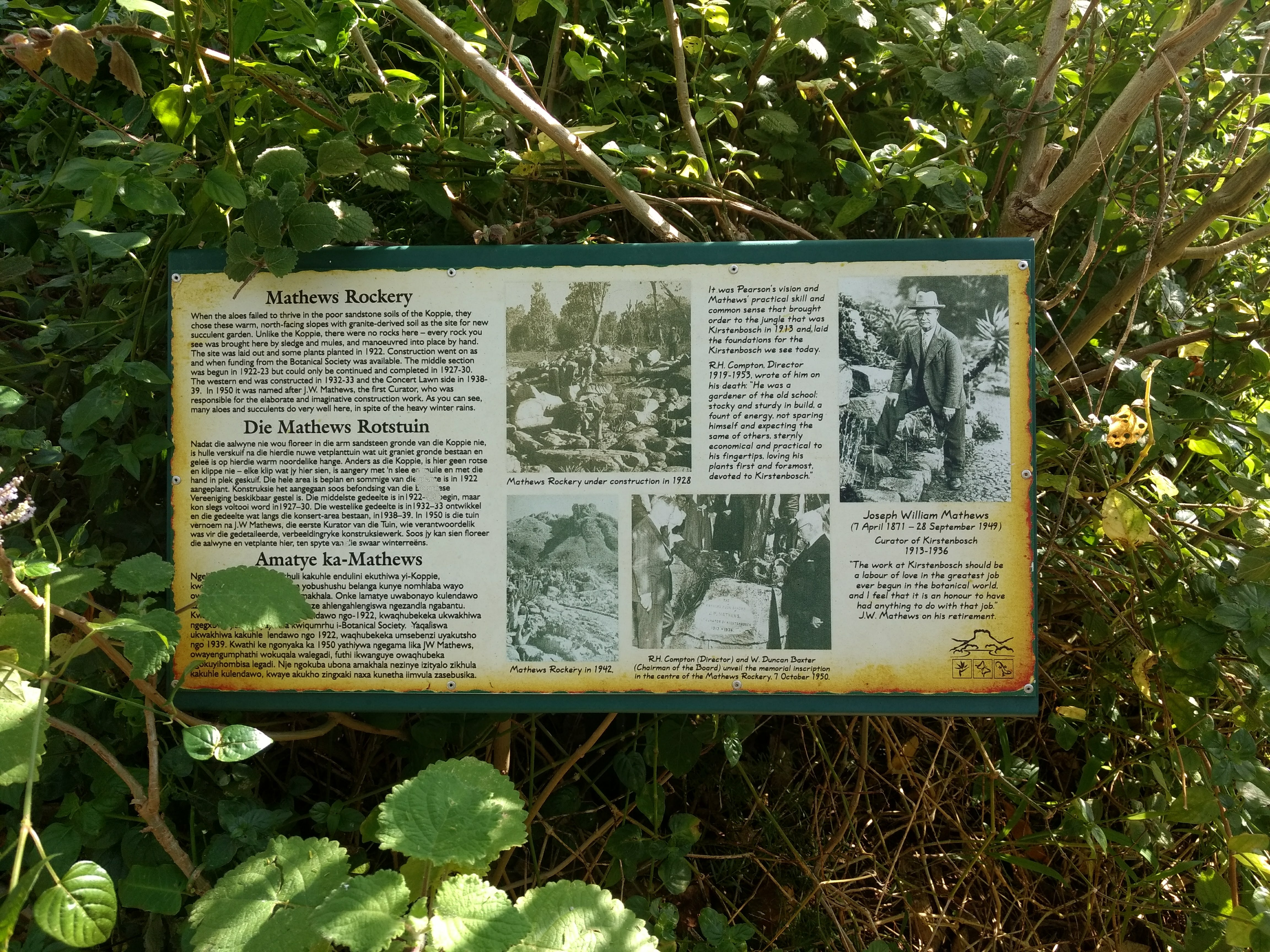 Memorial information in Kirstenbosch botanical garden